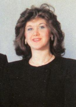 The Assad family. Hafez al-Assad and his wife, Mrs Anisa Makhlouf. On the back row, from left to right: Maher, Bashar, Basil, Majid, and Bushra al-Assad.